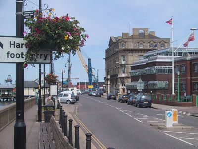 The Quay at Harwich taken June 2004